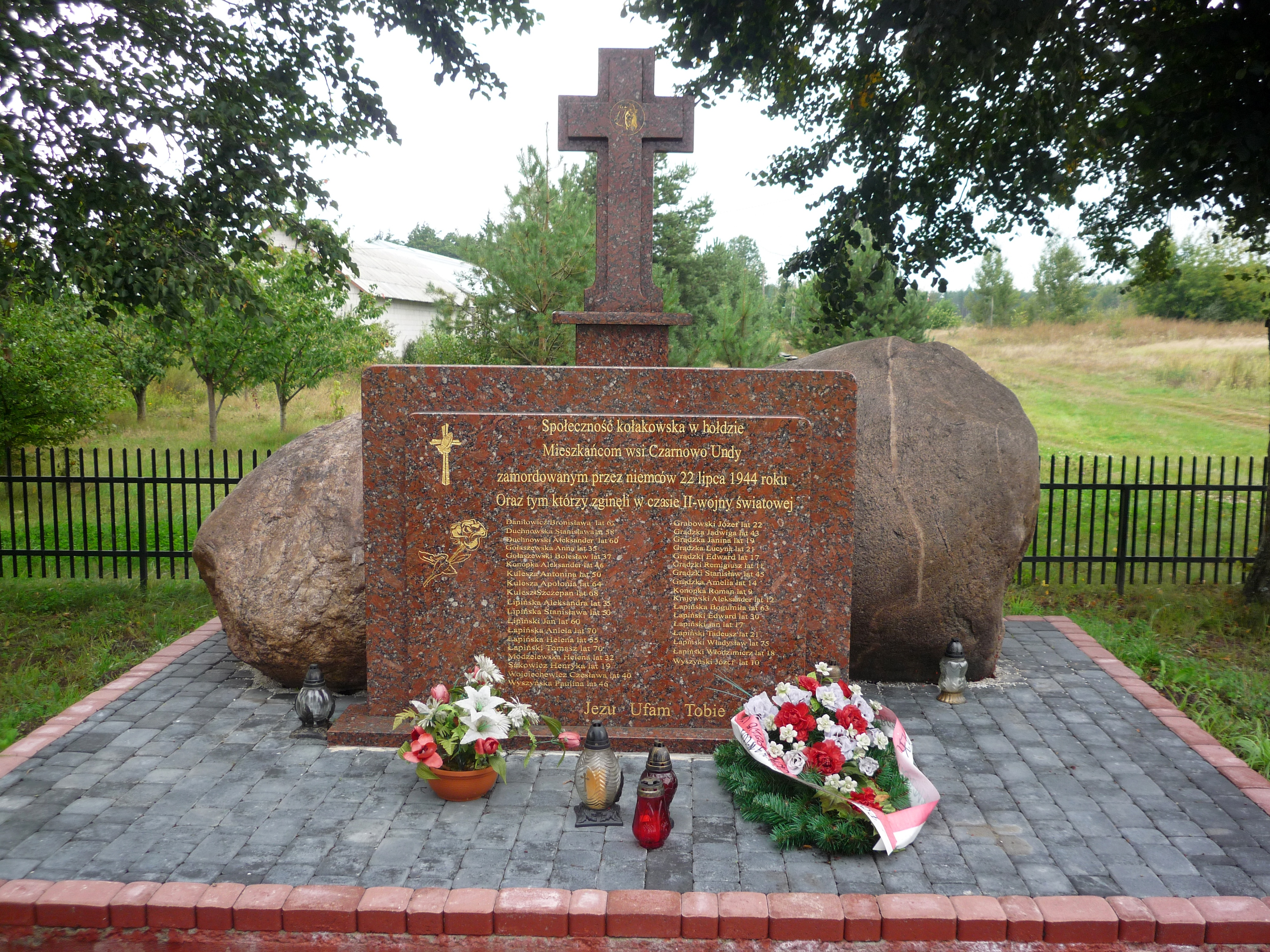 Monument dedicated to inhabitants of Czarnowo Undy, murdered by Germans during the Second World War (22 July 1944)